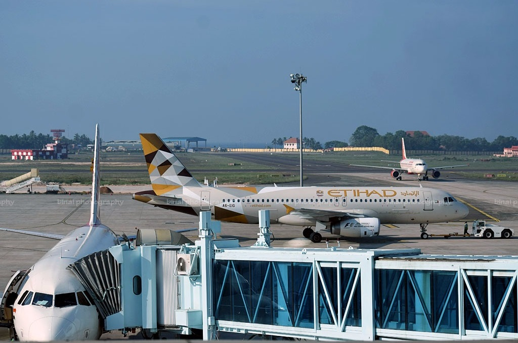 Flights at Trivandrum international airport apron.